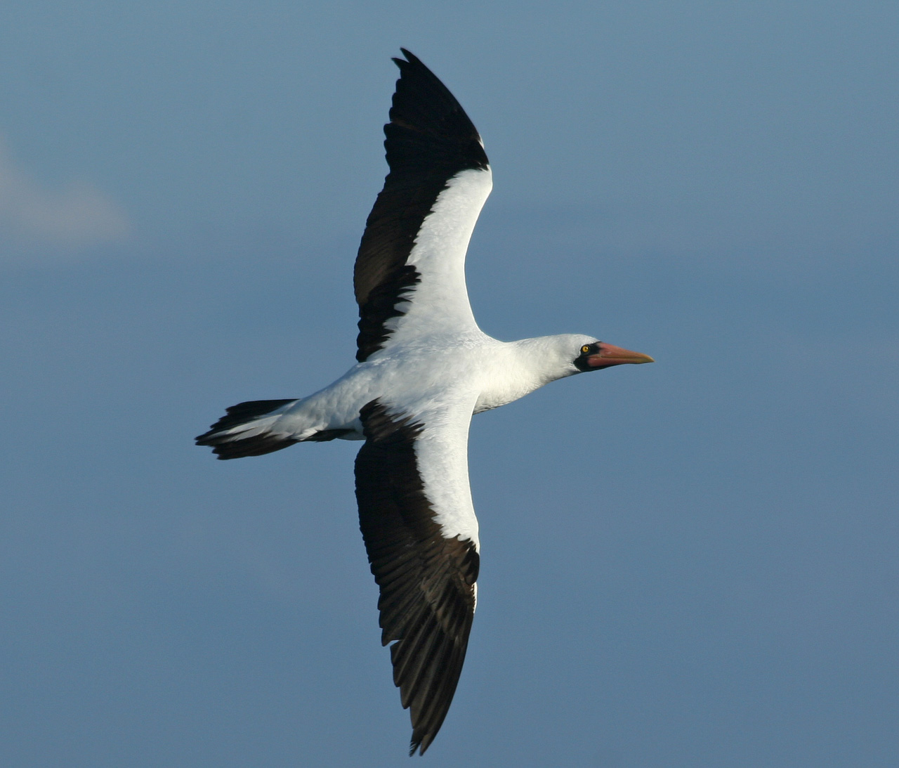 Nazca Booby (Sula granti) photographed by Tad Boniecki on Espanola Island, Galapagos, Ecuador in February 2007.